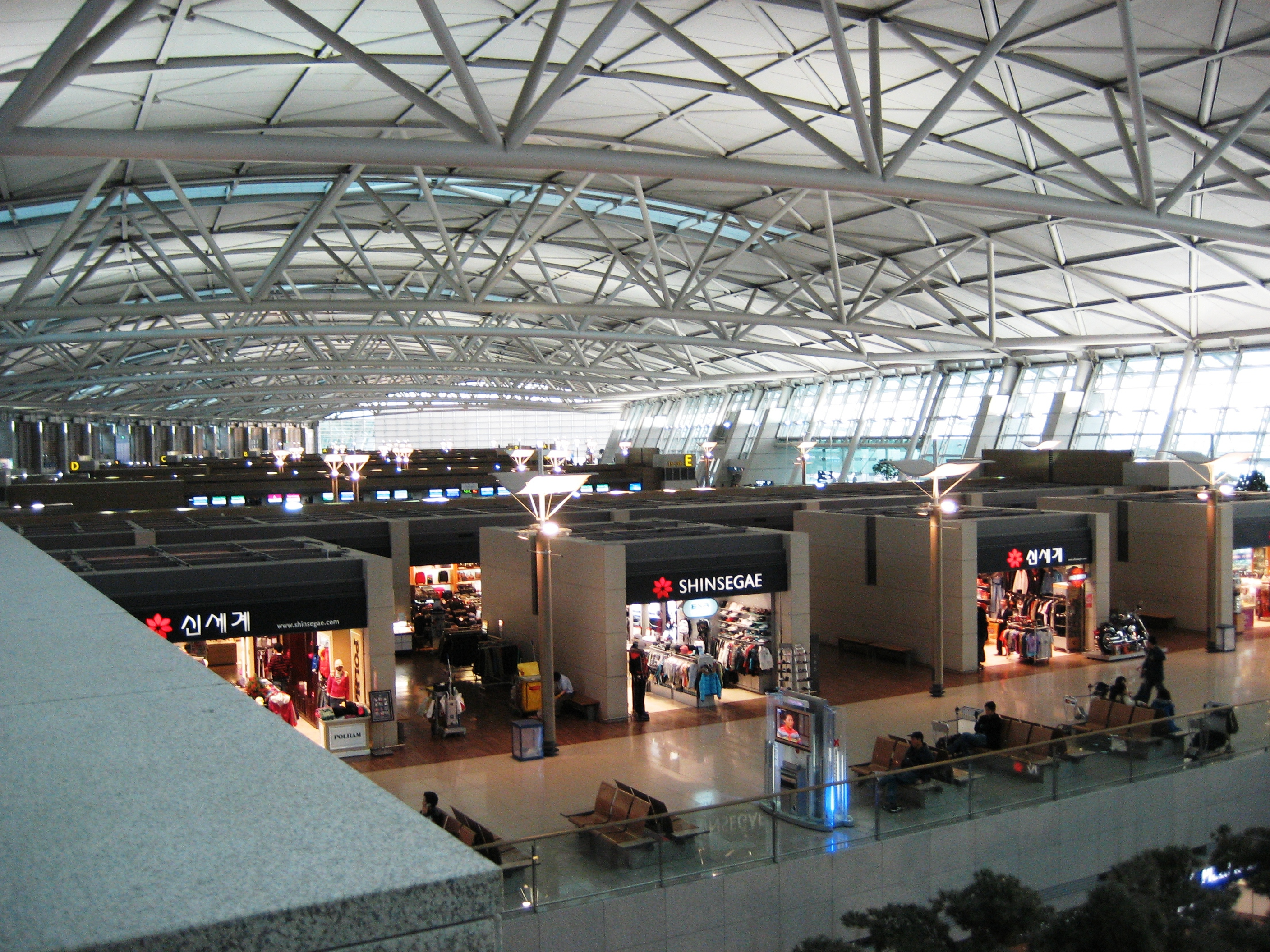 Incheon International Airport,Deperture lobby over view.